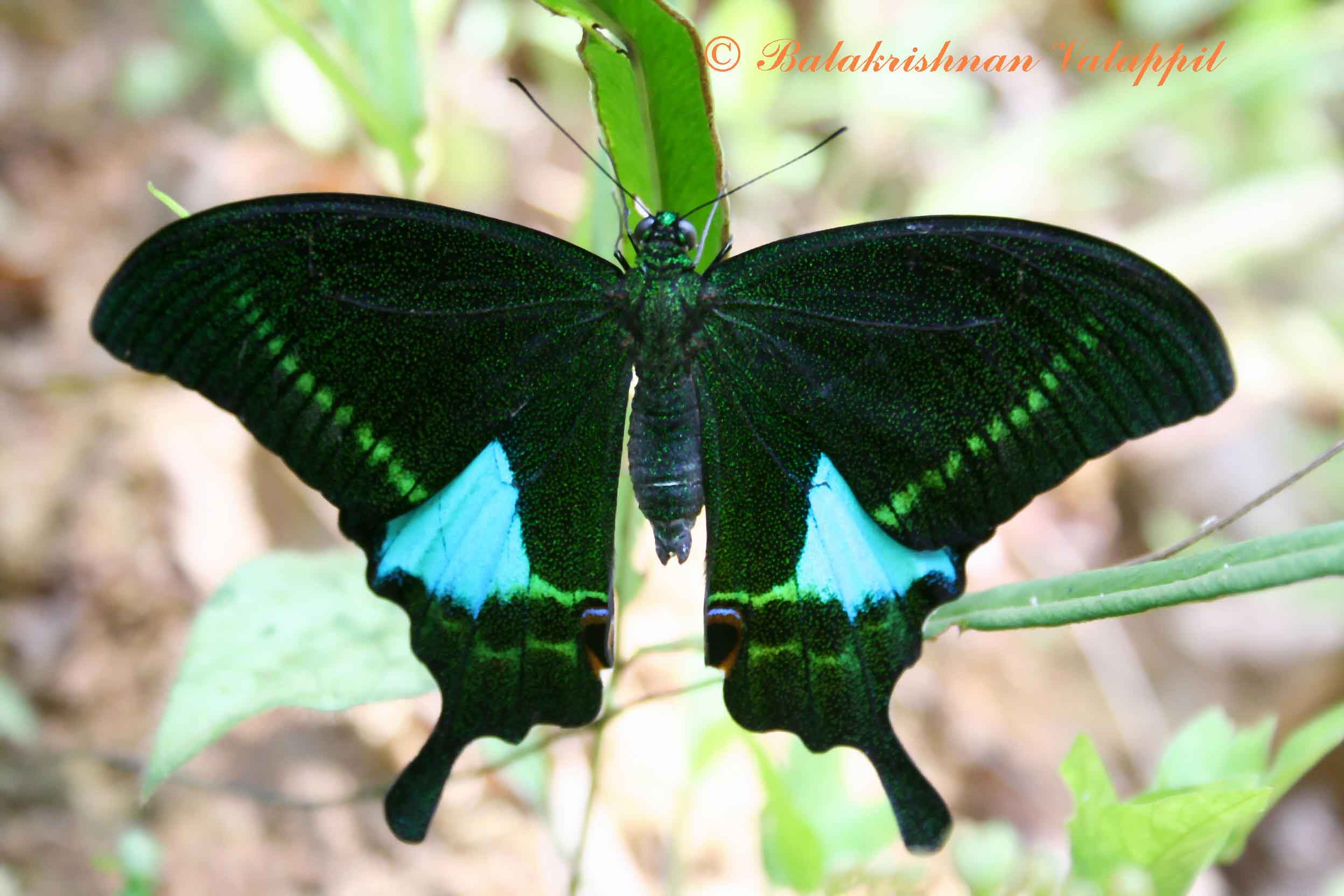 paris peacock